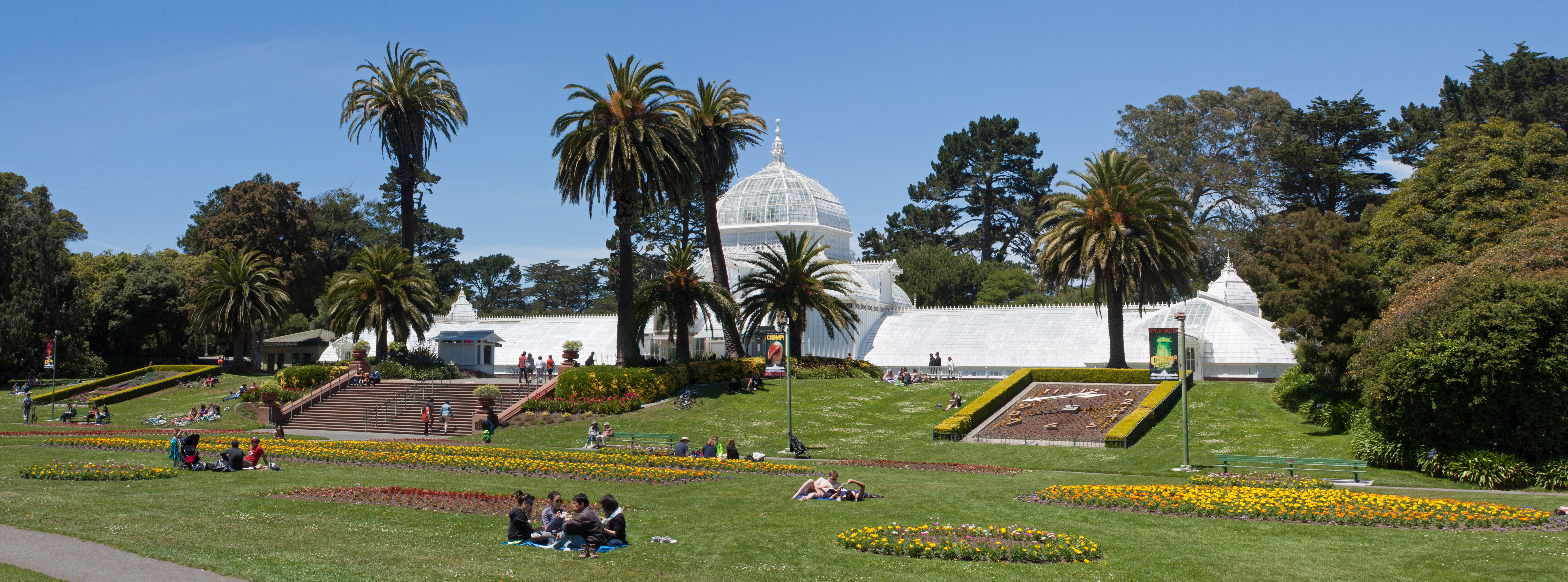 Conservatory of Flowers in Golden Gate Park, San Francisco